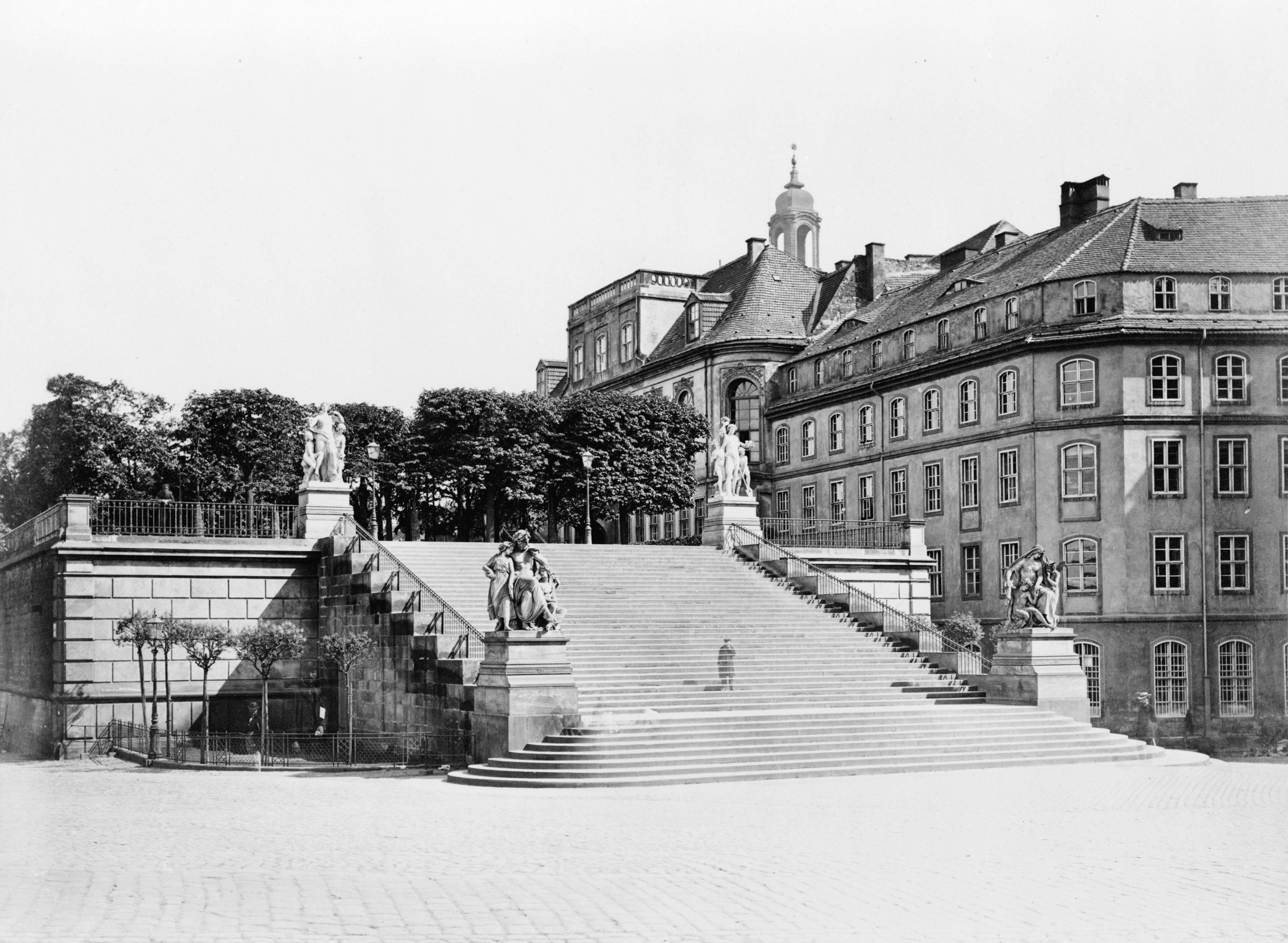 Dresden, Germany, Brühlsche Terrasse, between 1860 and 1890